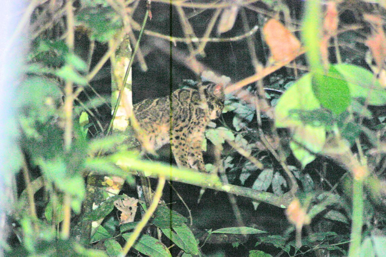 Photograph of Neofelis diardi, the Bornean Clouded Leopard in the wild of Borneo. "I took this photo in the Borneo Rainforest in 2004 during a night drive. The spotlight was not very strong and the photo came out black. According to the game ranger this was the first time in years that he saw this leopard and said it looked like a juvenile." Image has been edited somewhat for clarity.